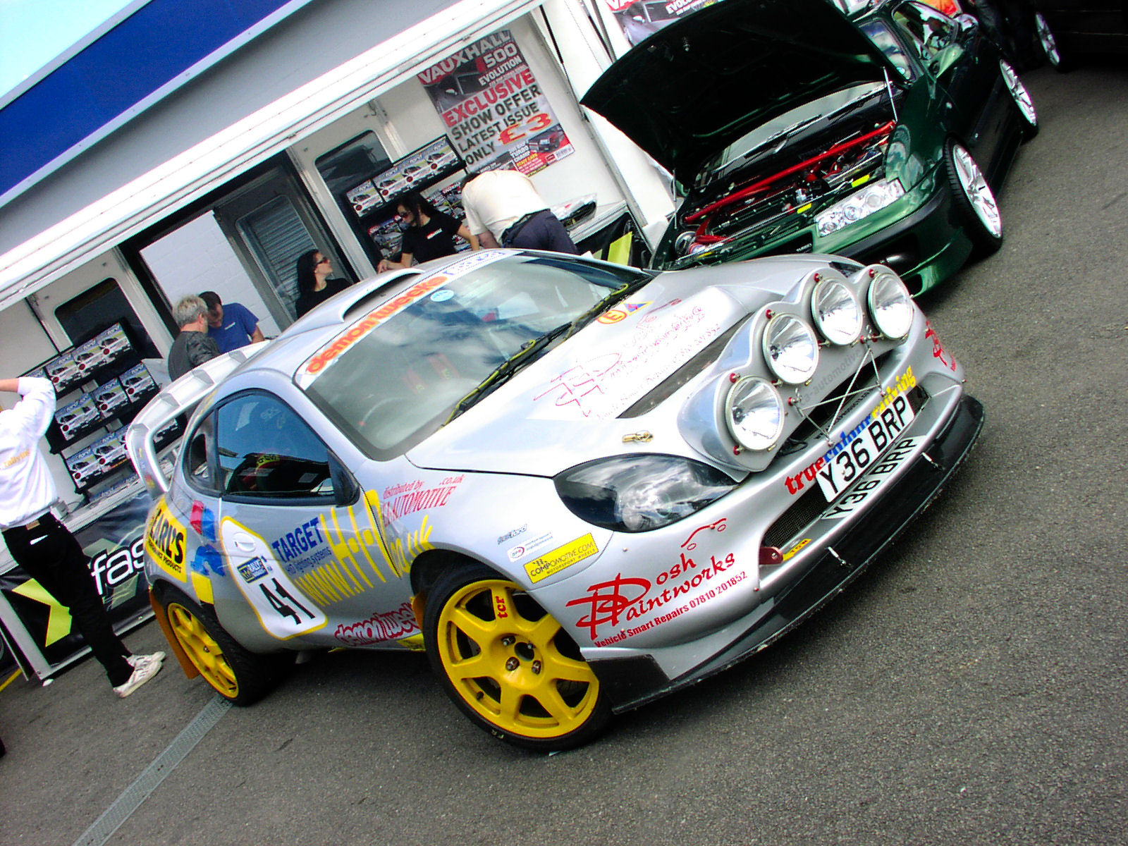 This is a rally Group B going Ford Puma (Andrew Costin-Hurley and Bryan Hull) at Trax 2006.